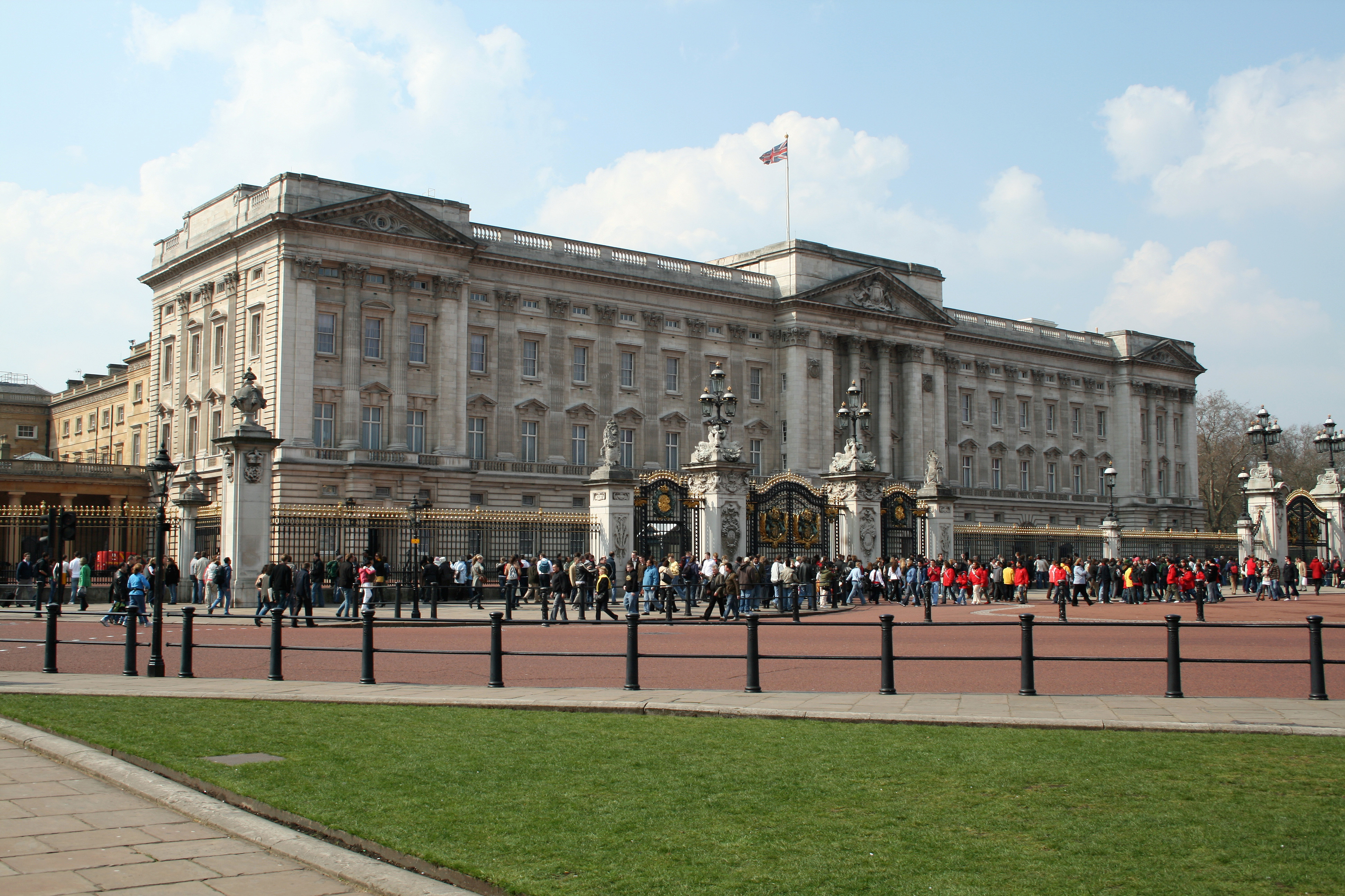 The Buckingham Palace in England.